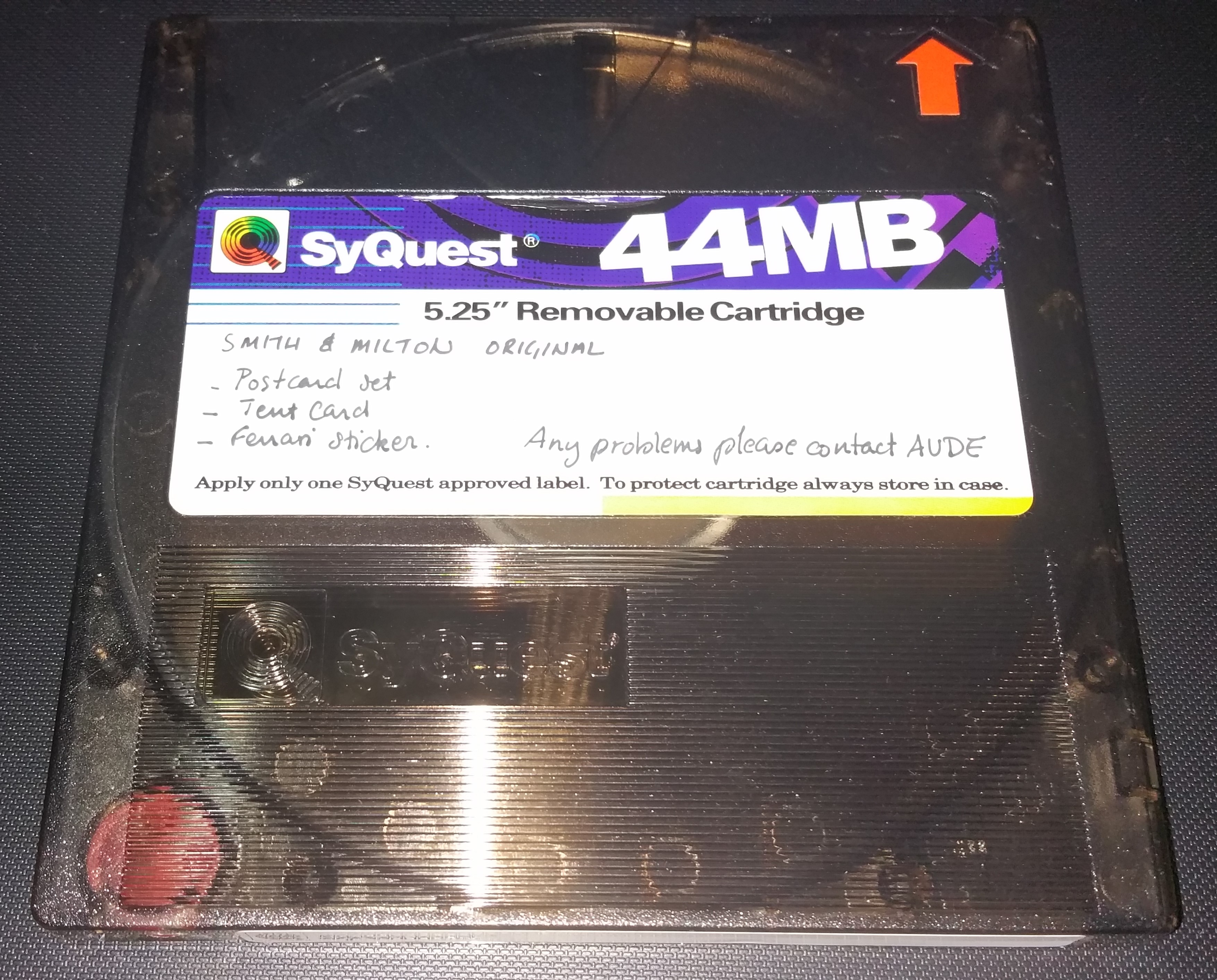 Syquest 44mb removable 5.25" drive. Dimensions 131.85mm x 131.85mm x 12.85mm high